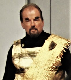 Comic-Con 2010 - TOS klingon